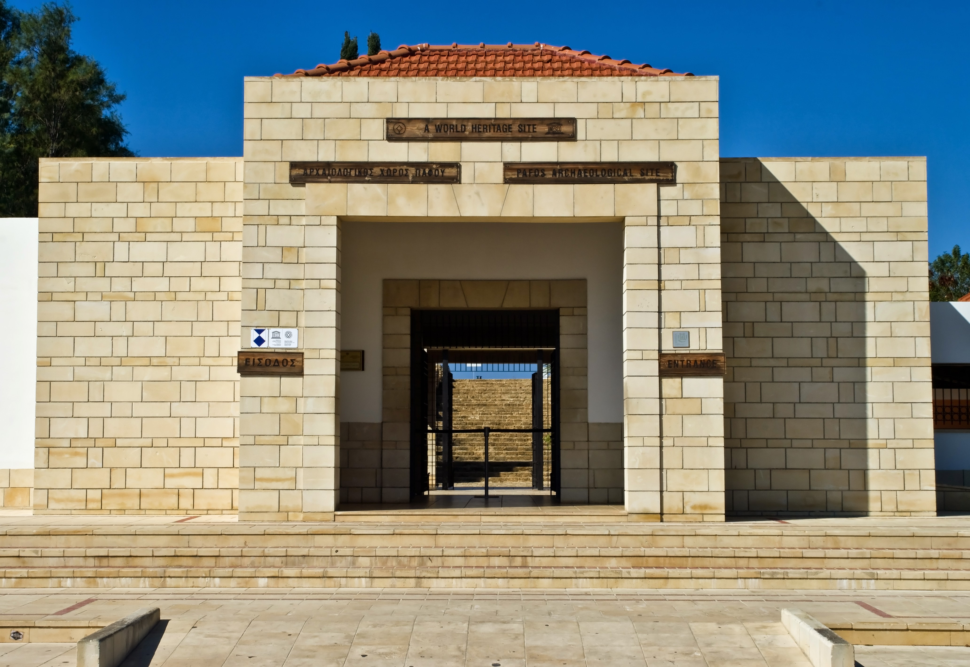 Archaeological Park in Paphos, Cyprus.